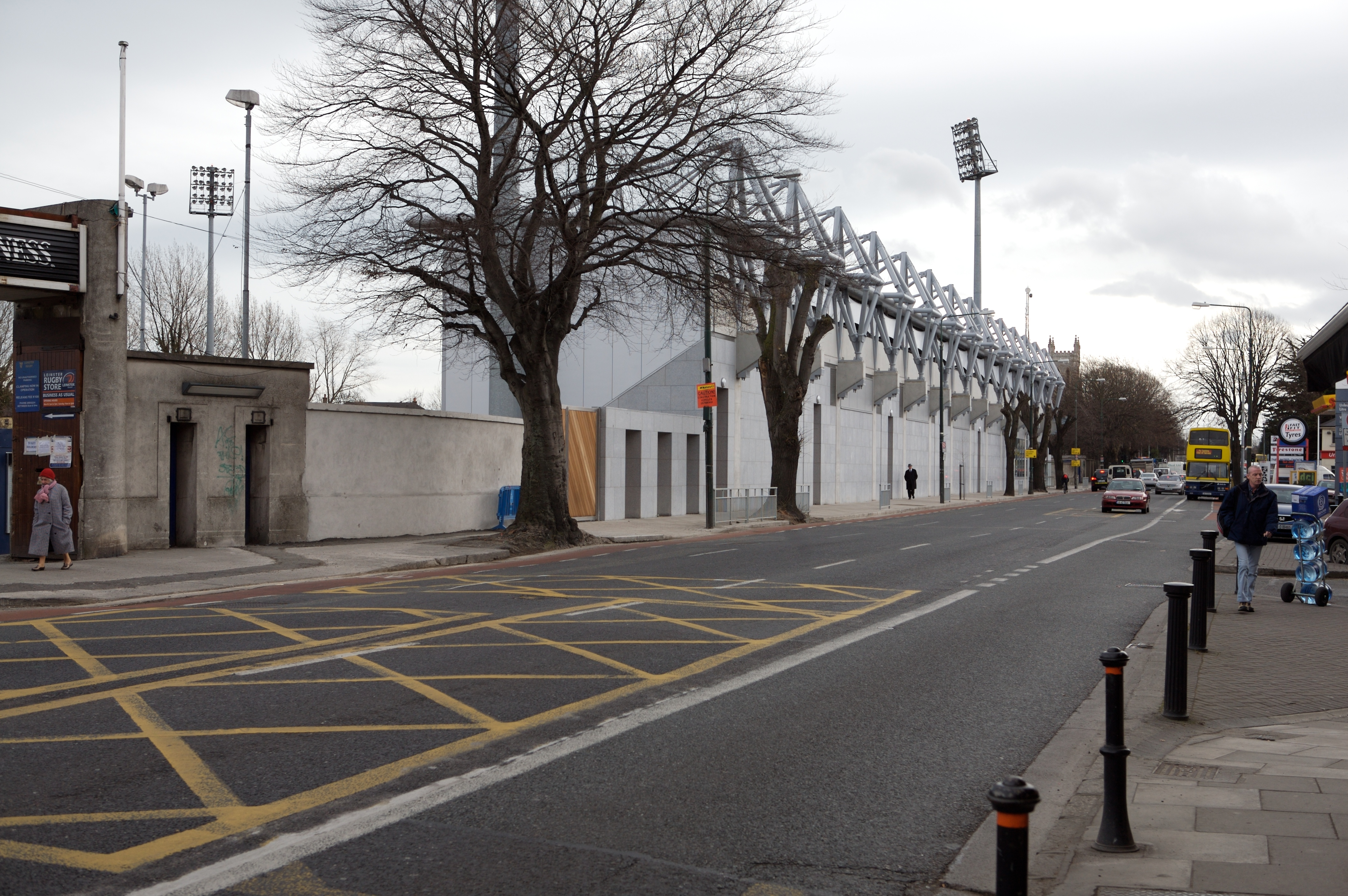 The newly completed stand at the Leinster Rugby Ground, Donnybrook, Dublin, Ireland